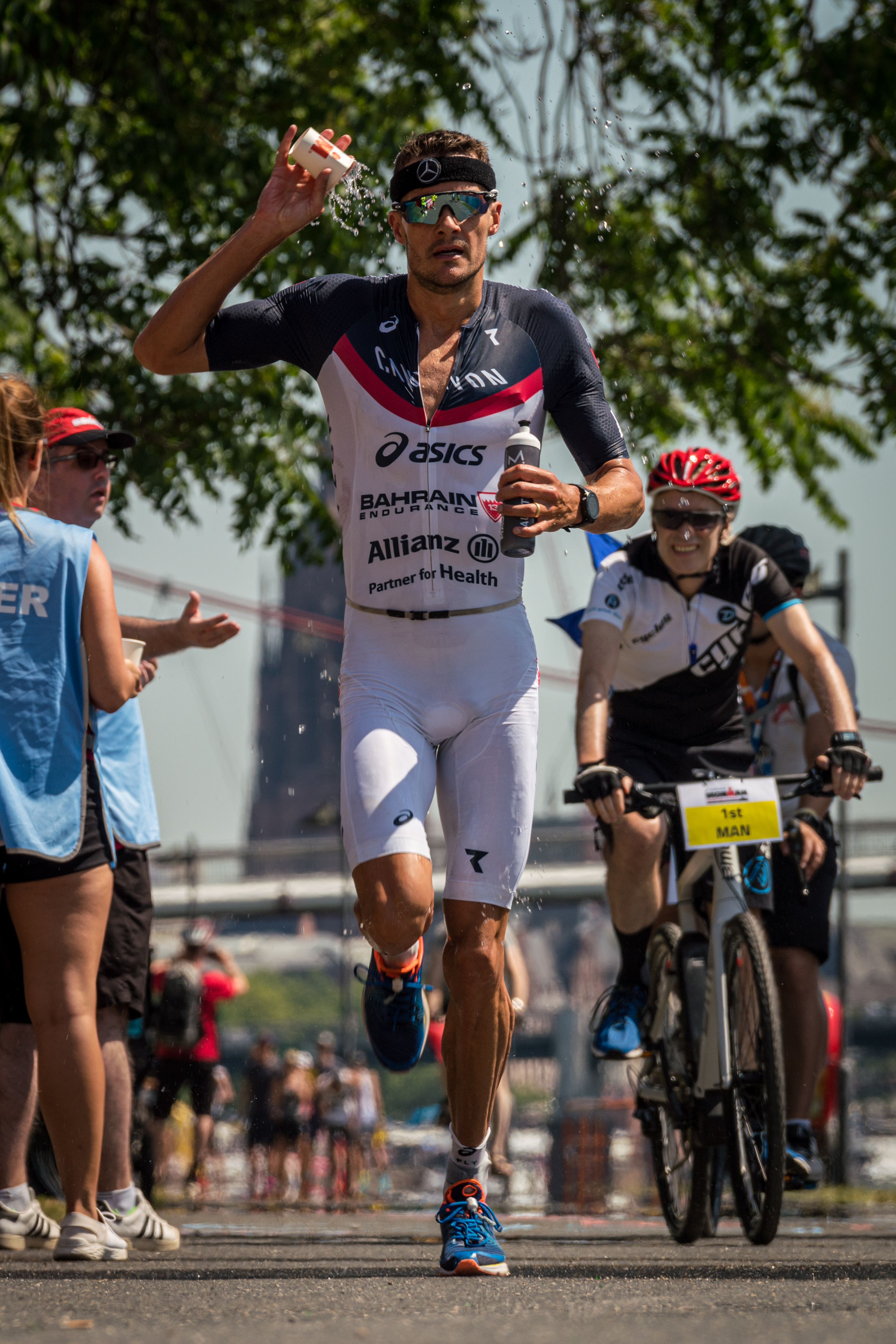 First male Jan Frodeno at the 2019 Ironman European Championship in Frankfurt am Main (Germany).